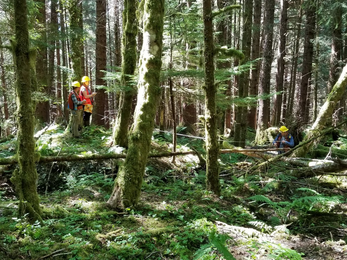 Foresters set up photo points for monitoring restoration activities as part of the Vallenar Young-growth Project near Ketchikan, Alaska. #Tongass #restoration #publiclands #ItsAllYours (USFS Photo by Brock Martin)